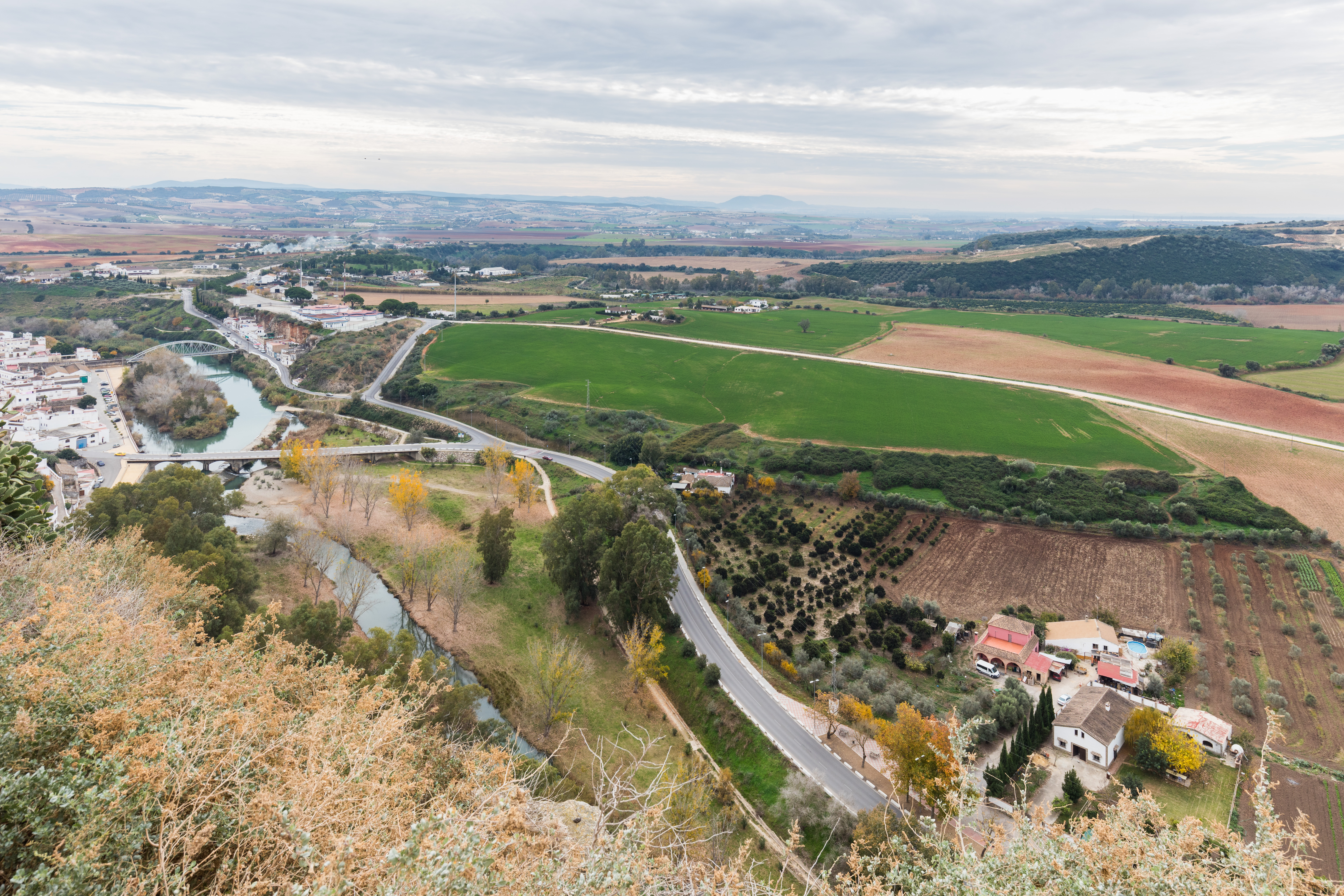 View of Arcos de la Frontera from Balcón de la Peña Nueva, Cádiz, Spain